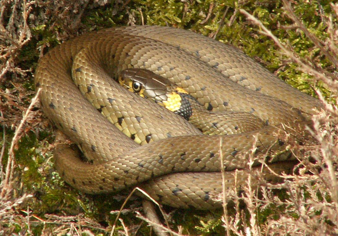 Natrix Natrix from the Veluwe, the Netherlands, just after hibernation (crop of NatrixNatix.JPG)